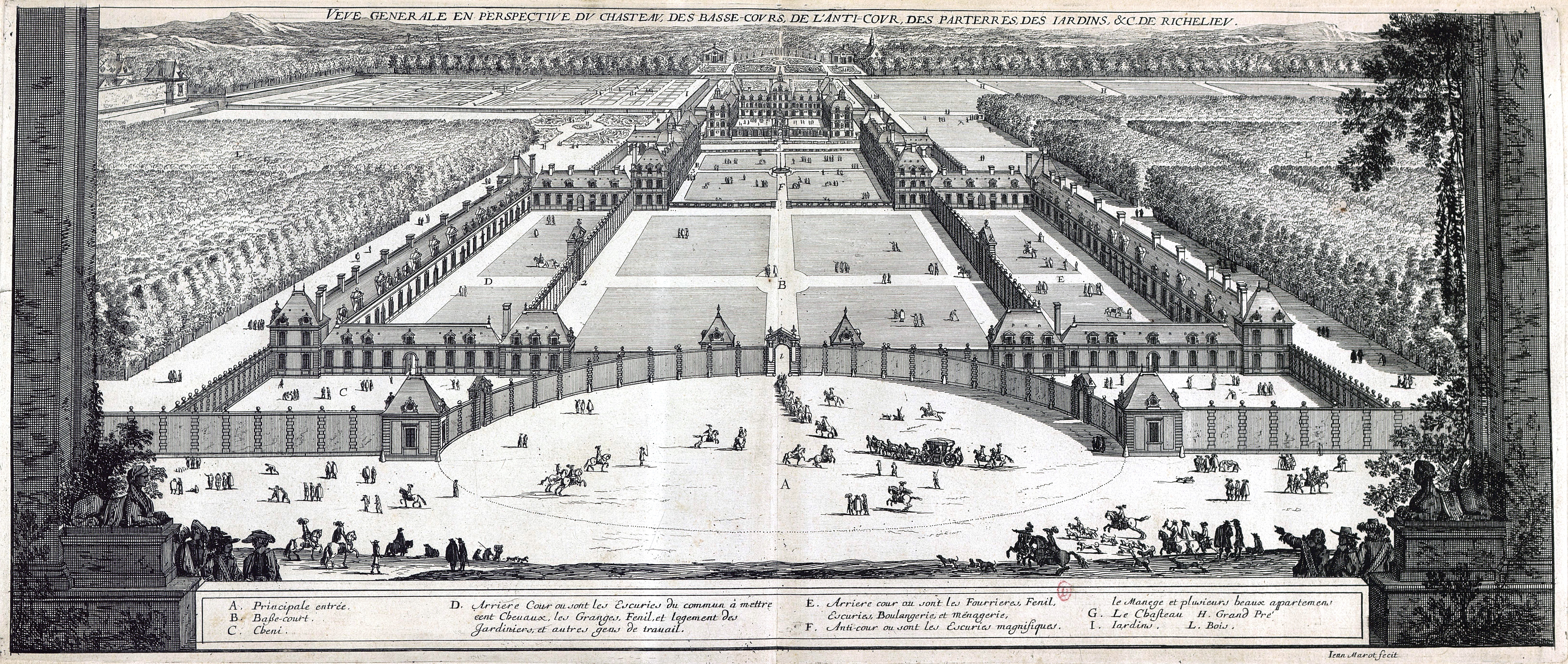 General perspective view (looking east) of the Château de Richelieu, plate from from Le Magnifique Chasteau de Richelieu... by Jean Marot